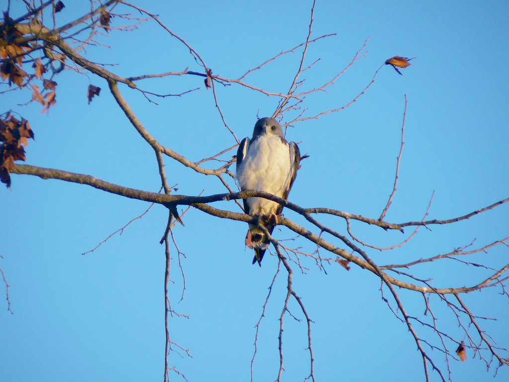 White-tailed Hawk Buteo albicaudatus